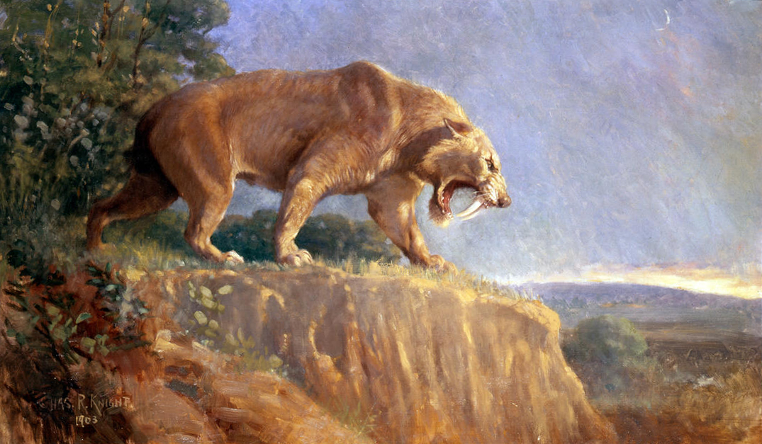 Painting of Smilodon populator from the American Museum of Natural History.